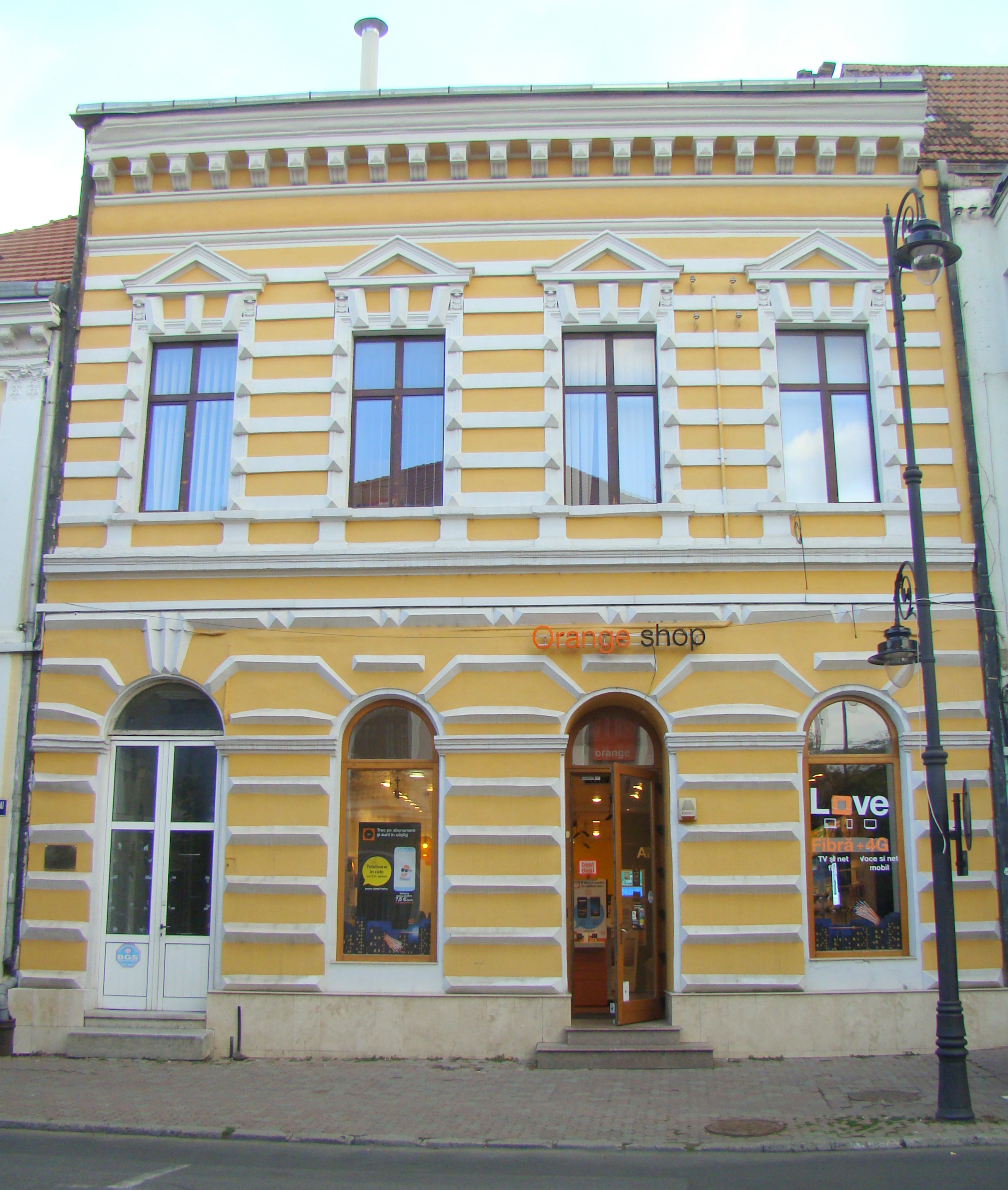 House, historic monument, in Bistrița, Piața Centrală 8